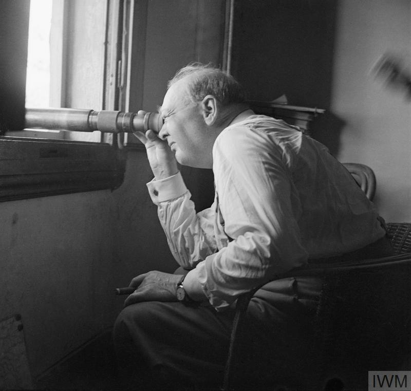 Churchill on the italian front near Florence in 1944